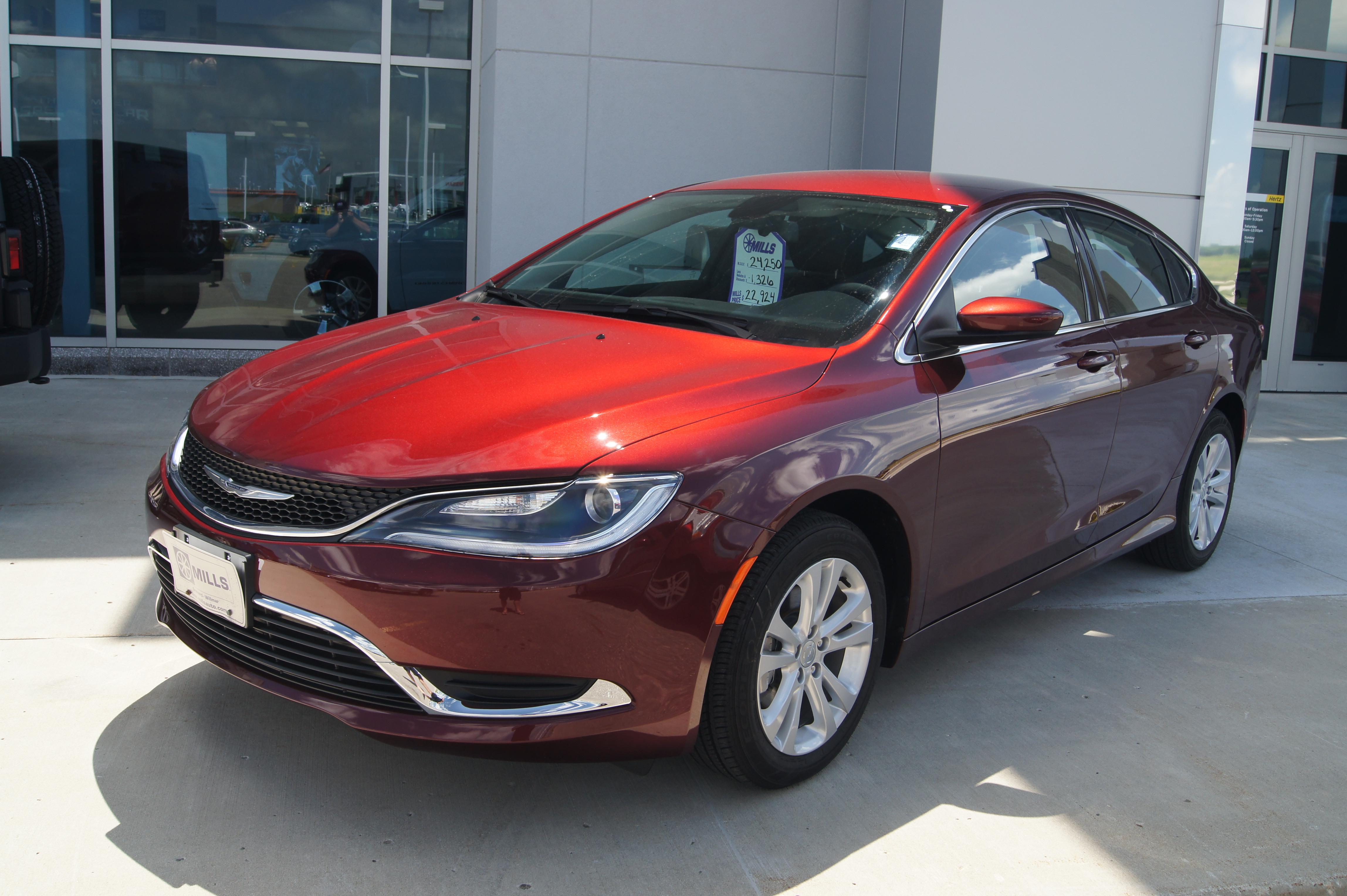 2015 Chrysler 200 Limited Ford Mustang 50th Anniversary Event Mills Ford Willmar Minnesota